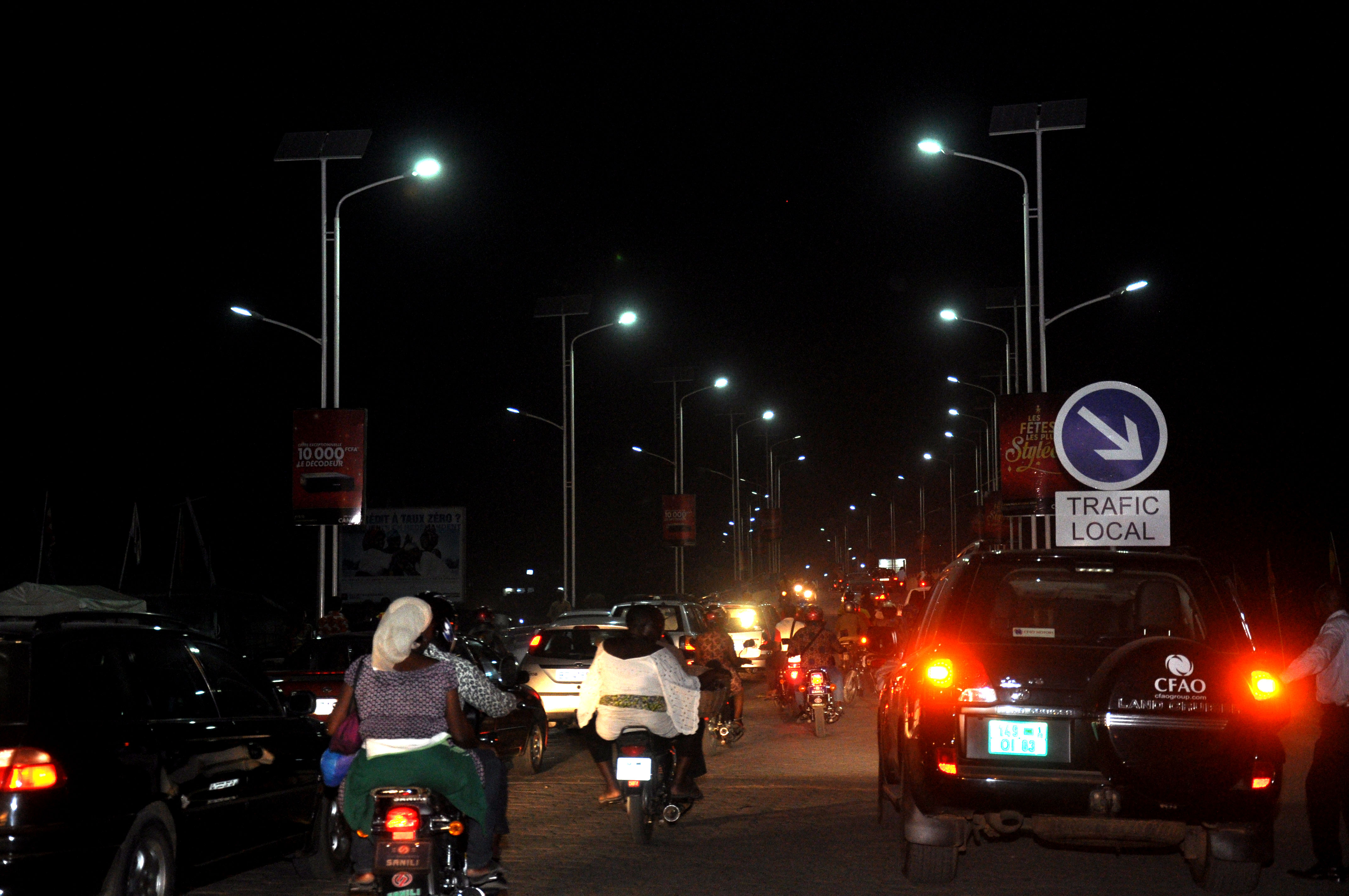 electricity finally arrived for the people of fifadji This is an image with the theme "Africa on the Move or Transport" from: Benin